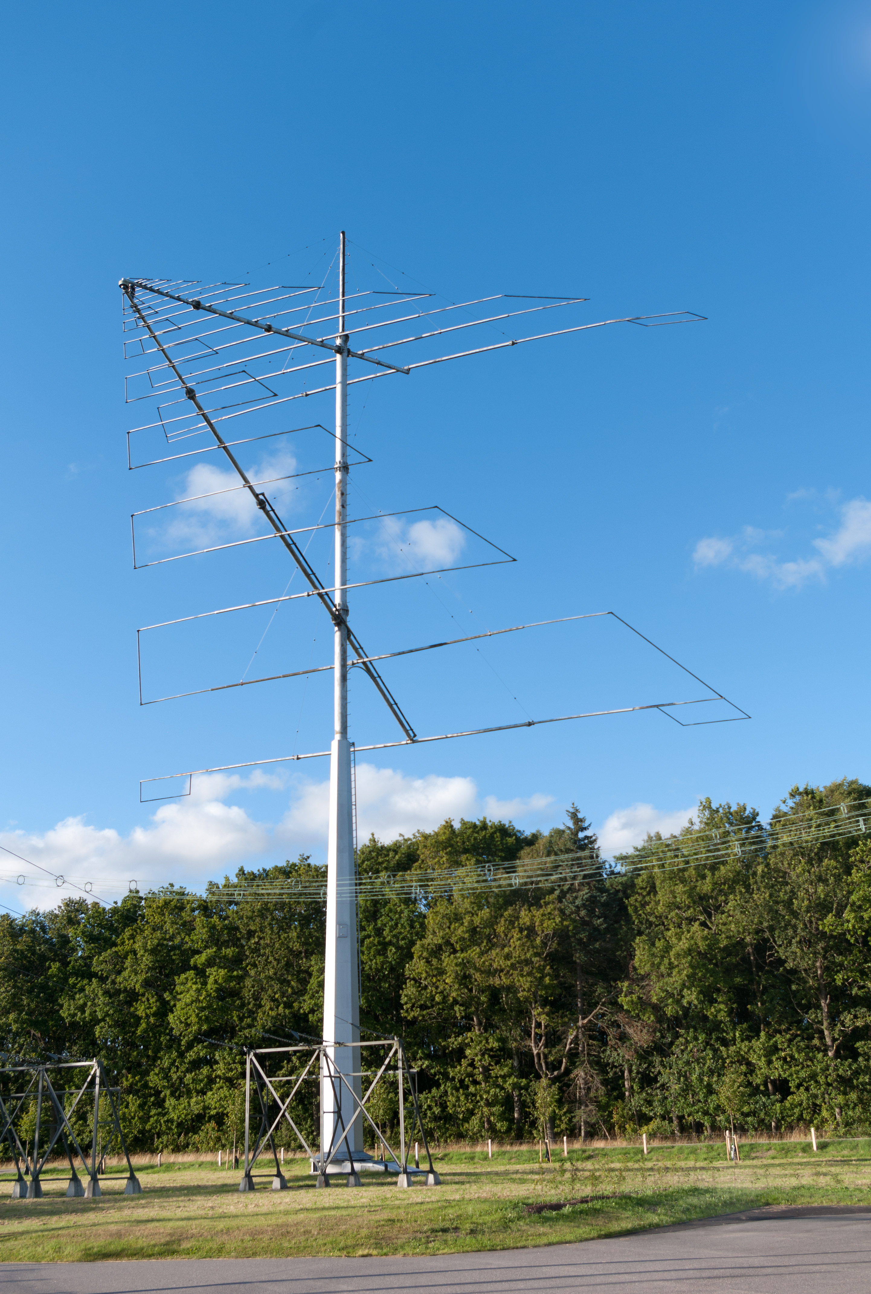 Log-periodic shortwave antenna besides the old Varberg Radio Station, Sweden